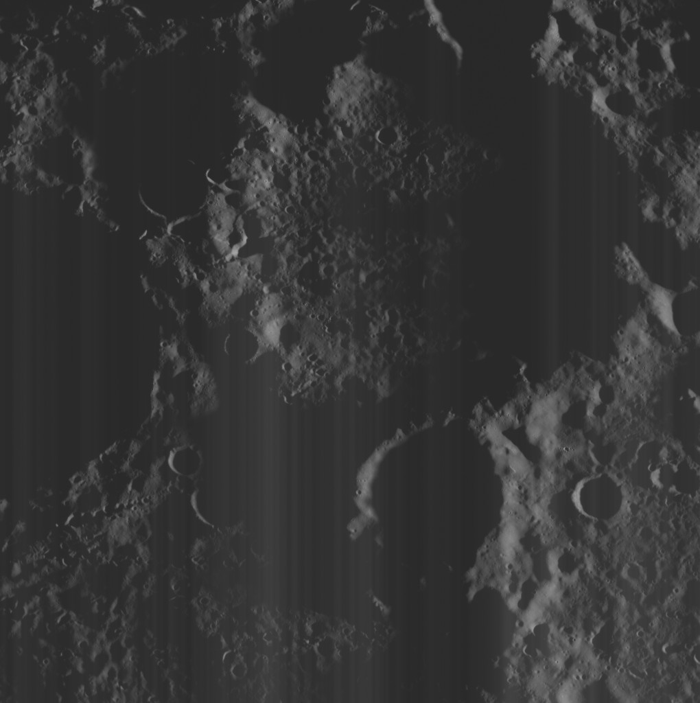 Gordimer crater on Mercury (upper right). MESSENGER Wide Angle Camera. North is in upper left. Emission Angle: 29.1 Incidence Angle: 88.2 Latitude: 87.9 Longitude: 174.5 Phase Angle: 89.4